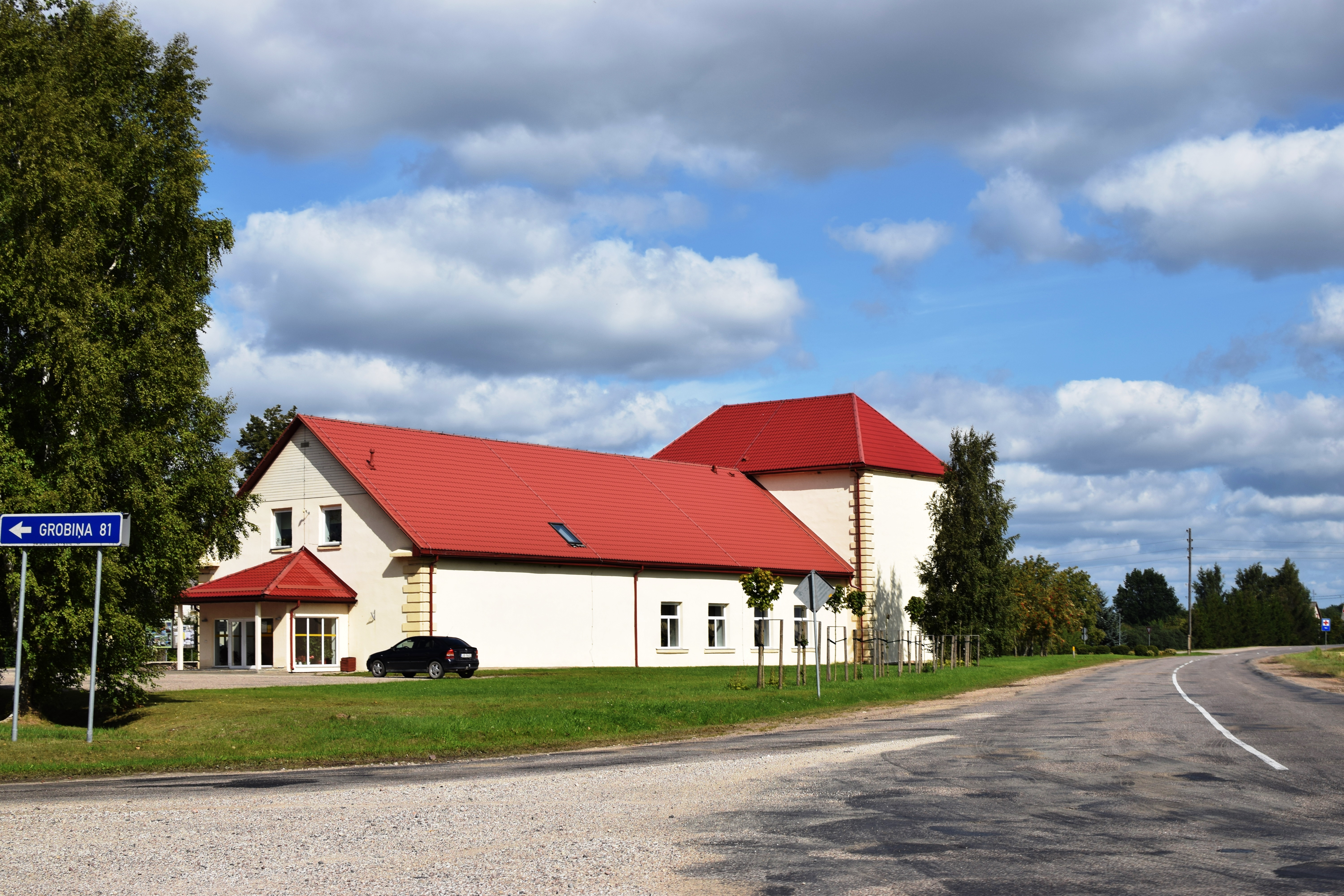 Saldus Municipality